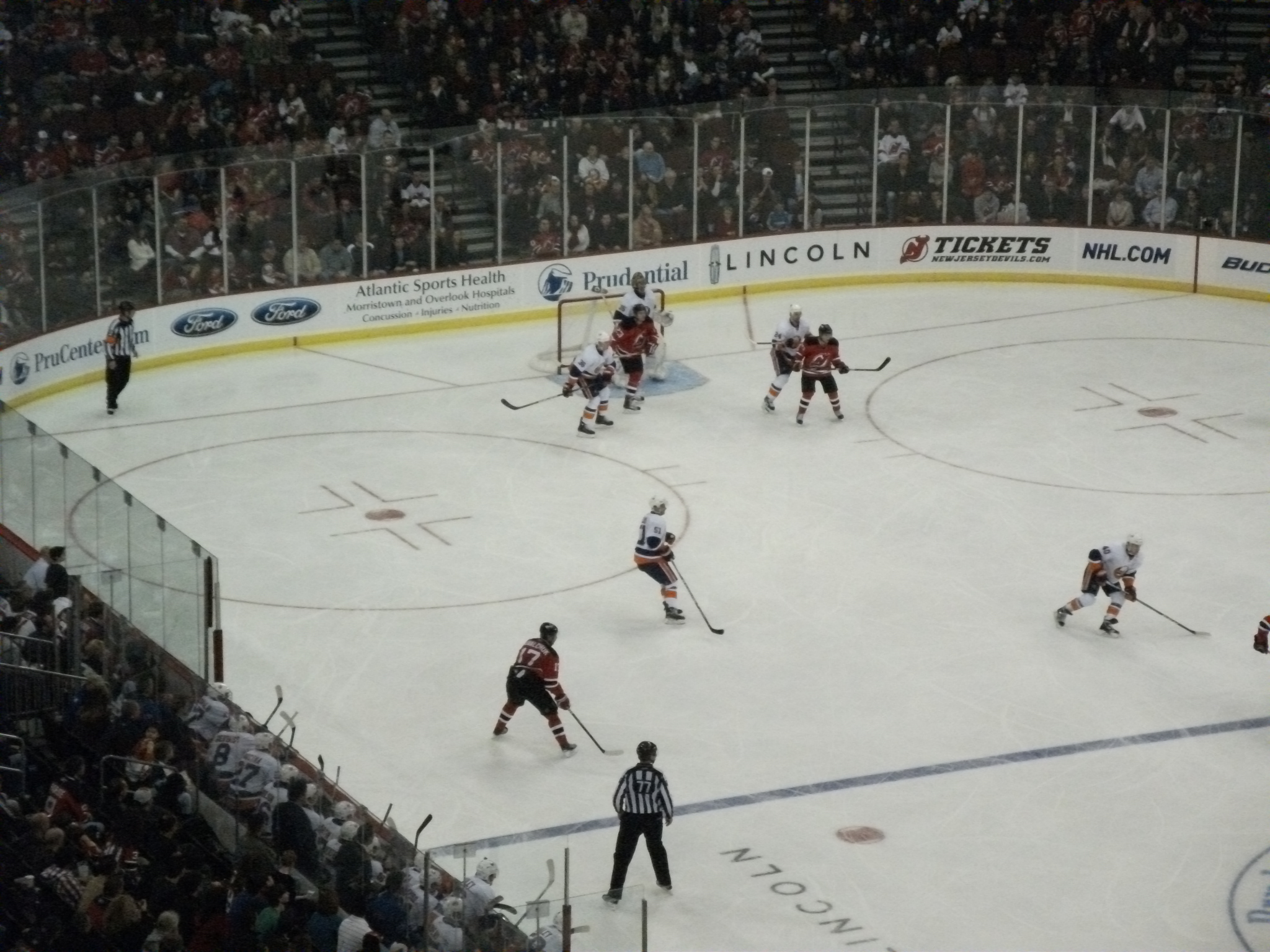 New York Islanders vs. New Jersey Devils - March 12, 2011 - Prudential Center - Newark, New Jersey.